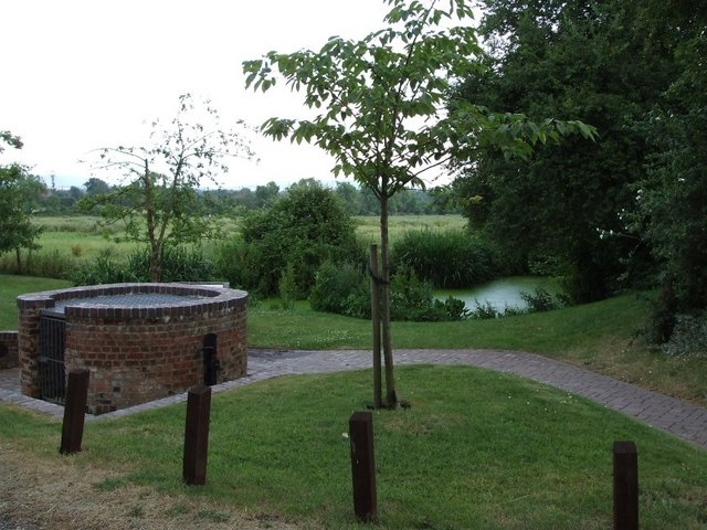 St Osyth's Well (left) and pond (right), Bierton, Buckinghamshire, England